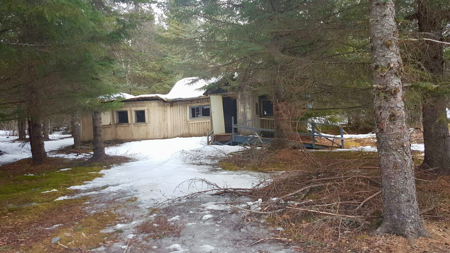 Abandonded home/cabin in the former settlement of Lawing, Alaska